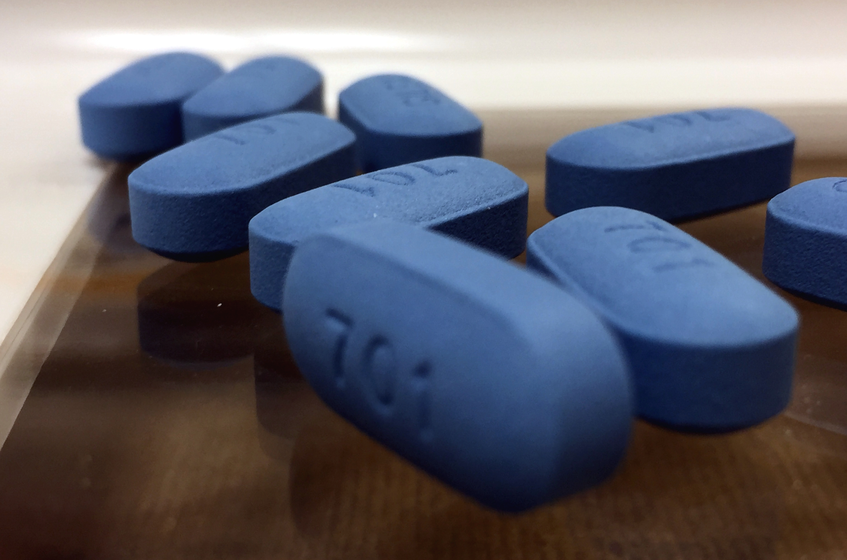 Single pills (brand name Truvada) containing two antiretroviral drugs, emtricitabine and tenofovir disoproxyl fumarate. Truvada is used for pre-exposure prophylaxis, or PrEP, a strategy in which healthy people routinely take antiretrovirals to reduce the risk of becoming infected with HIV. Credit: NIAID